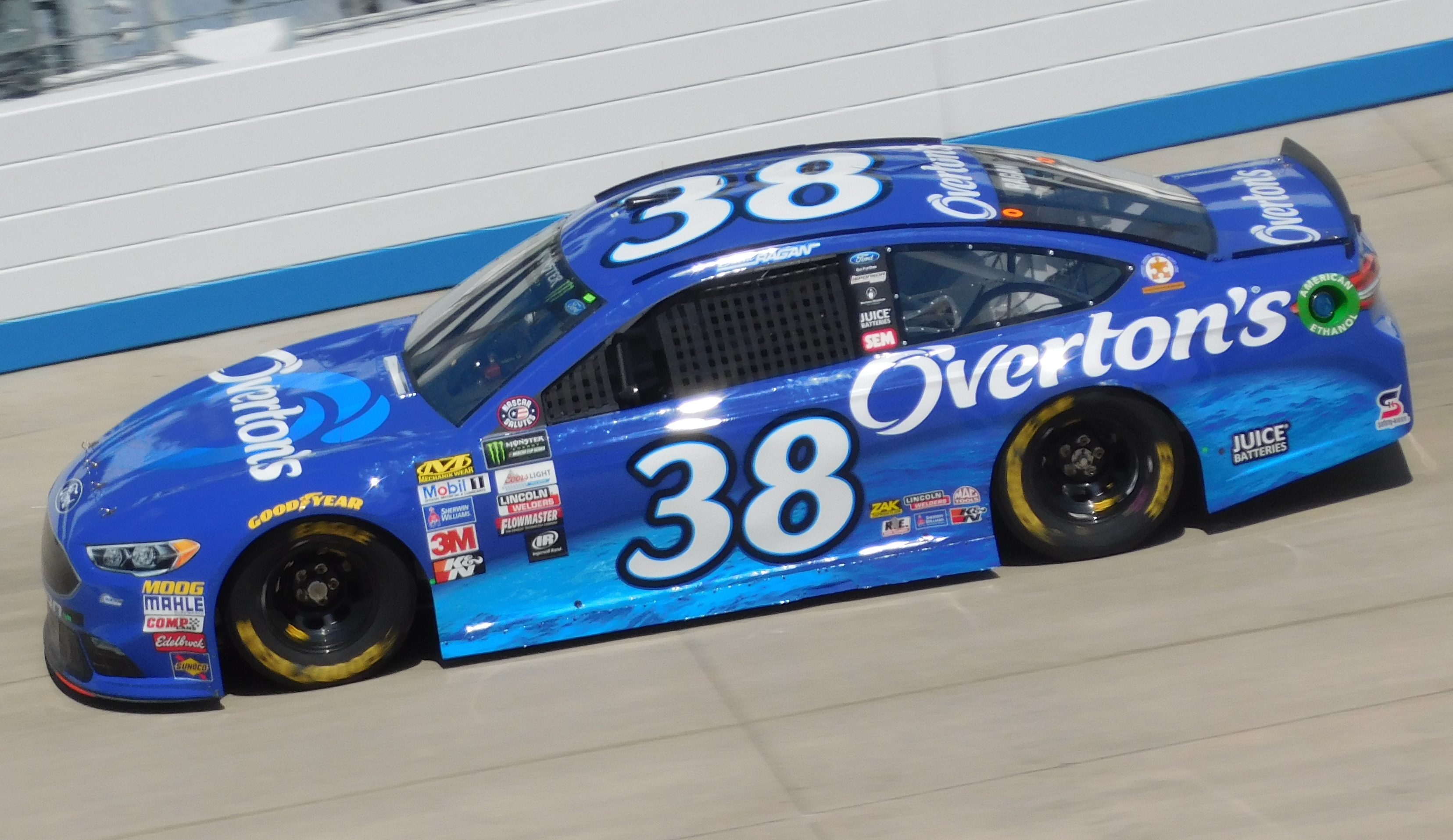 David Ragan's No. 38 Overton's Ford at Dover International Speedway in 2017